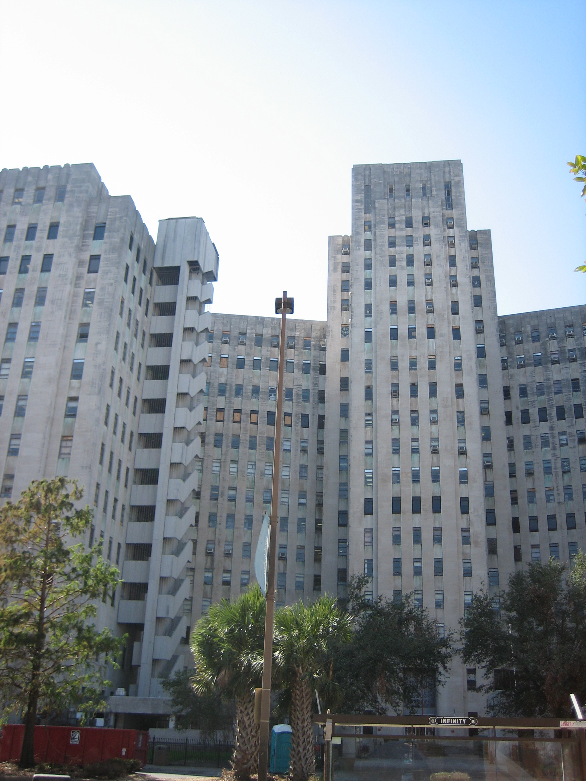 New Orleans after Hurricane Katrina: Charity Hospital on Tulane Avenue. It has been announced that due to severe damage to the building, the hospital will not reopen, and the building is expected to be demolished.